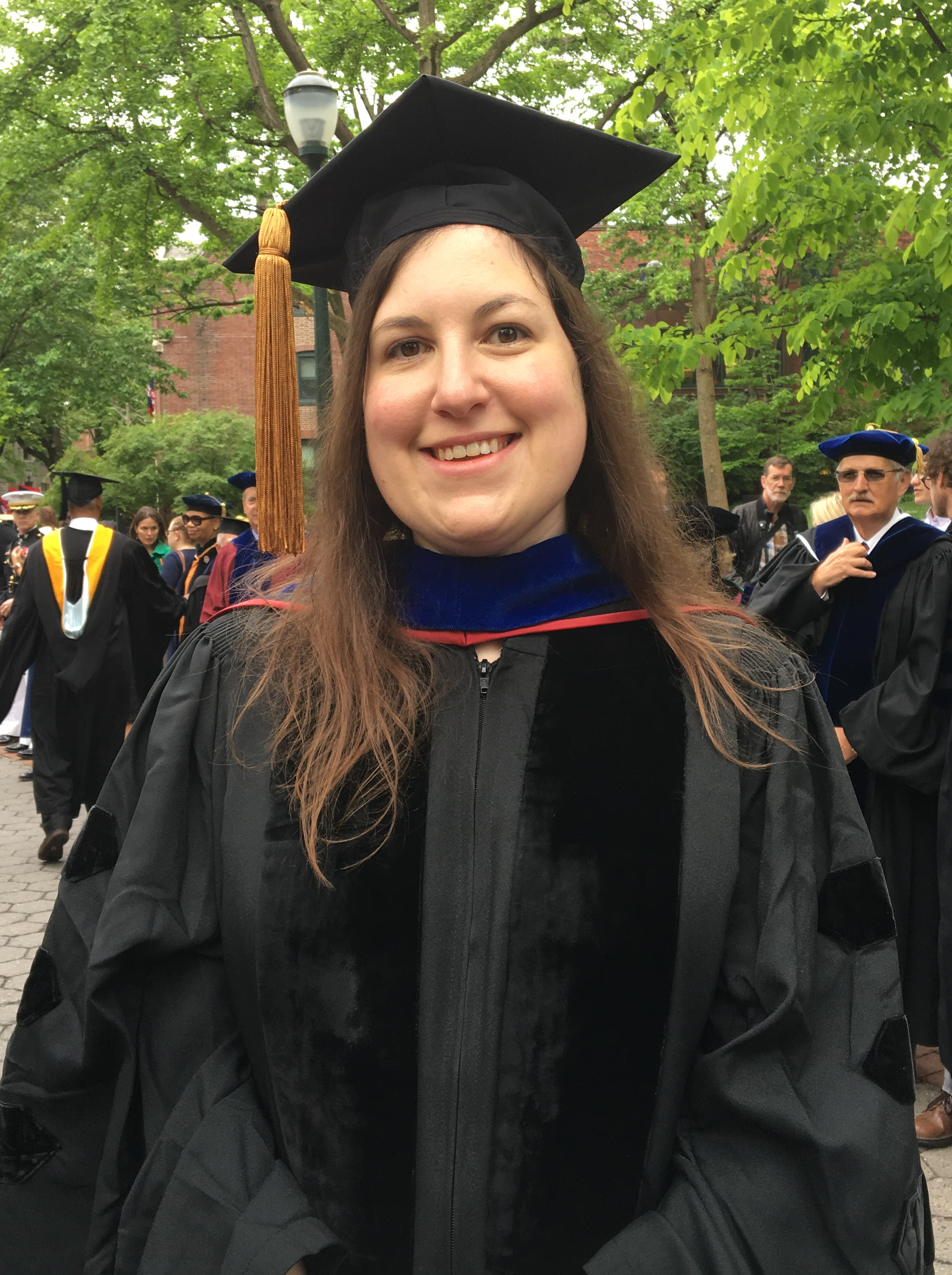 Lauren Sallan at the University of Pennsylvania commencement ceremony in 2018. Sallan is a professor, a paleontologist and a TED Senior Fellow.